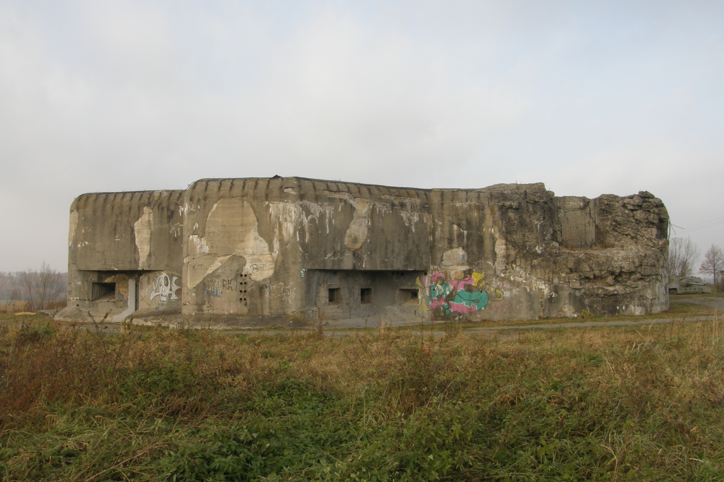 MO-S 20 U orla infantry casemate, Orel fortress, Opava District, Czech Republic